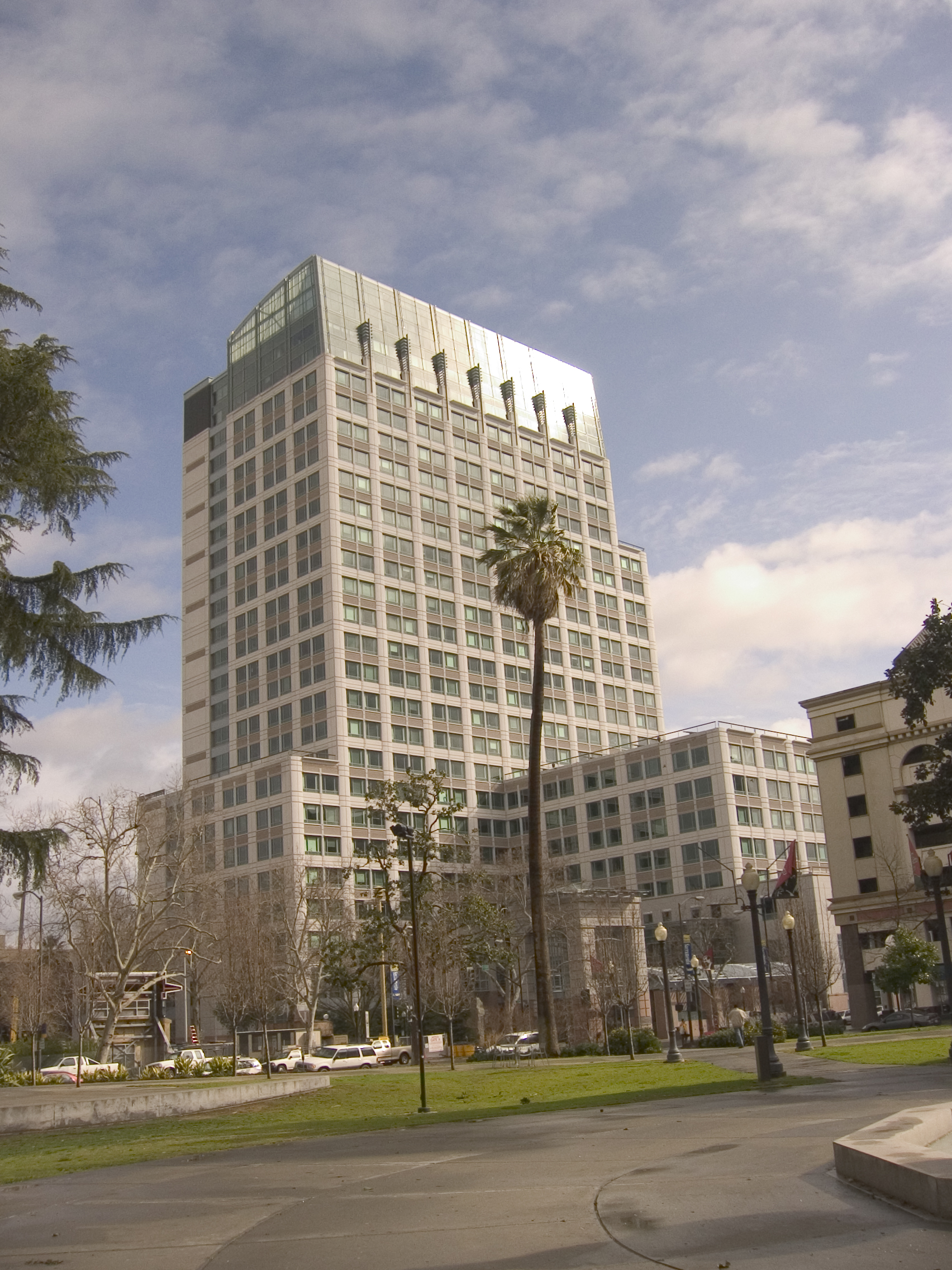 Cal EPA building